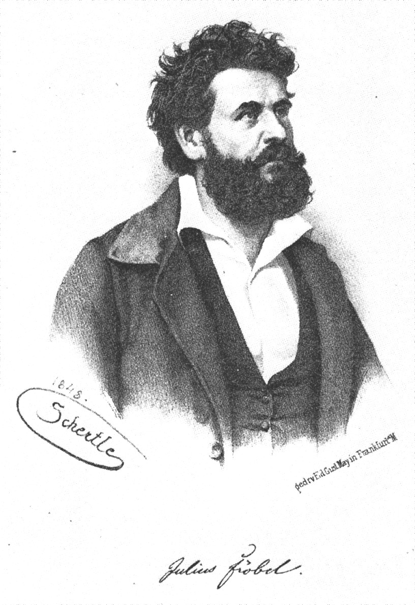 Portrait of Julius Fröbel